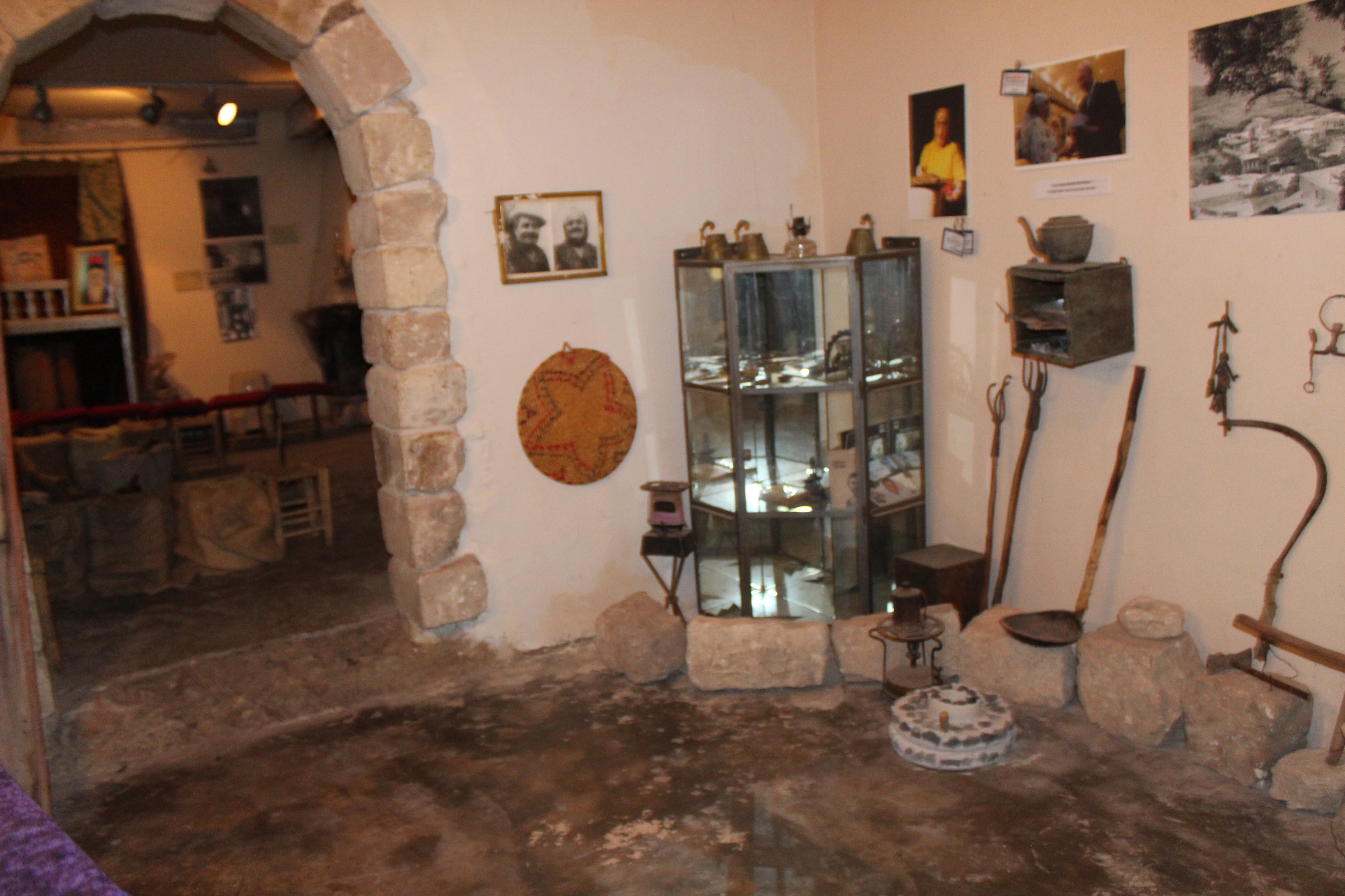 Zinati House visitors center, Peqi'in, Israel This image was taken as part of the Elef Millim project trip to Beit Zinati, in Peki'in which was held on Friday, 10th June 2016. To view all images uploaded as part of the Elef Millim Project